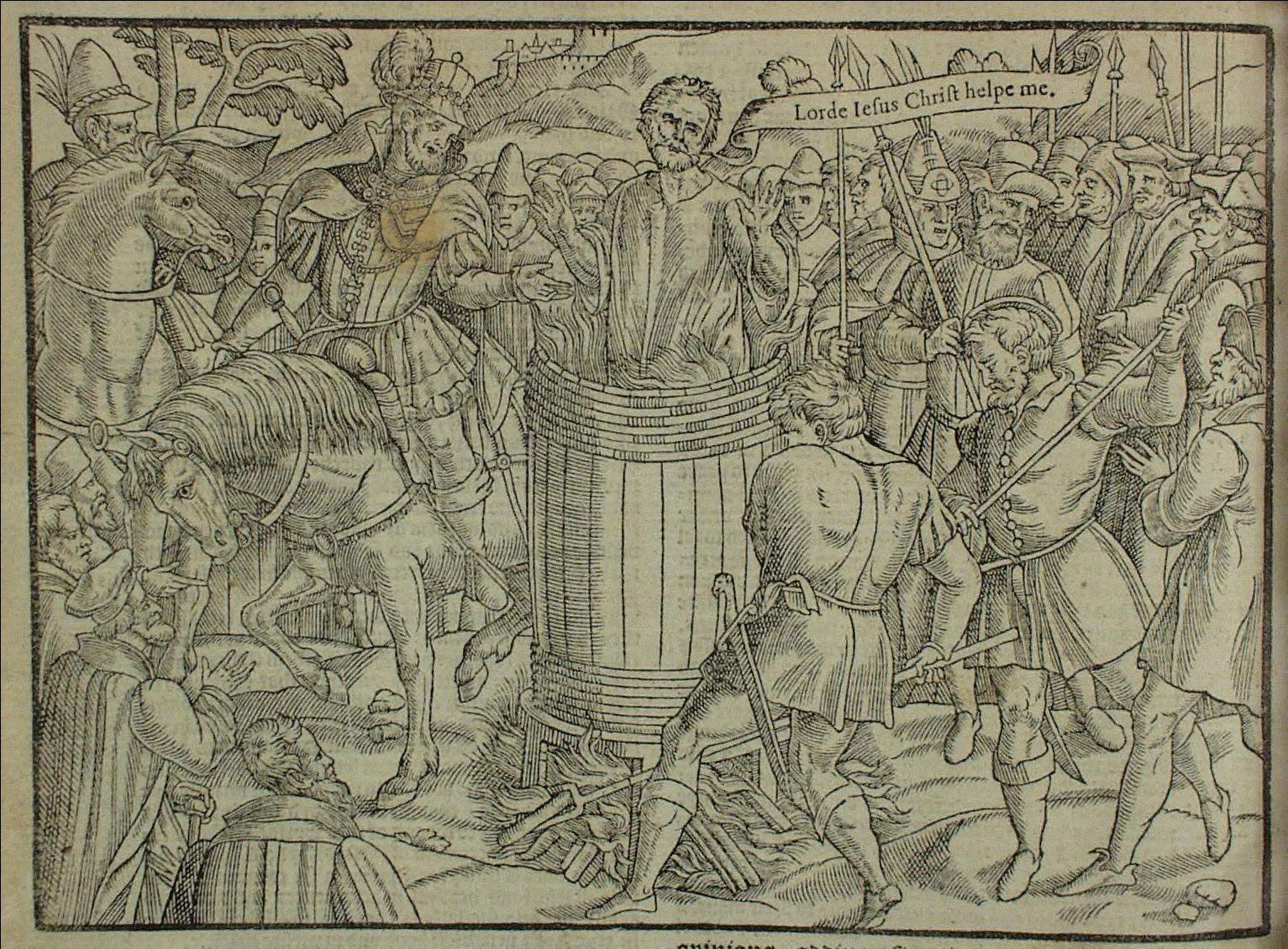 John Badby, Lollard martyr, being boiled in a barrel.